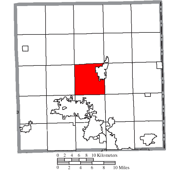 Map of the municipal and township boundaries of Trumbull County, Ohio, United States, as of the 2000 census, with the location of Bazetta Township highlighted. Township borders are shown only in unincorporated areas in order to differentiate incorporated and unincorporated areas more clearly.